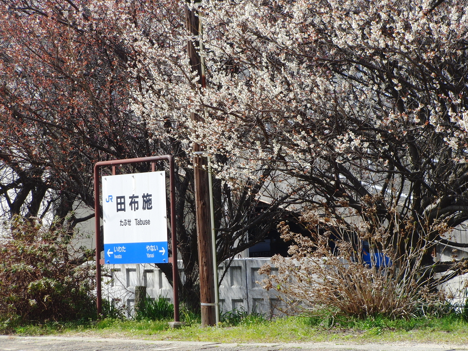 Tabuse Station